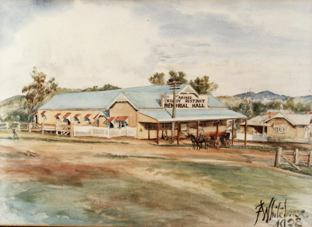 Kilcoy District Memorial Hall, 1923. This is an image of a watercolour painting created by F. Whitehouse. The painting was done in 1923, not long after the Memorial Hall was built. The original painting is held by the Kilcoy RSL Club.